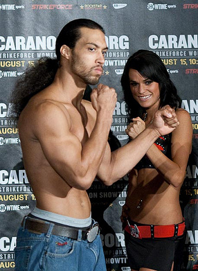 American mixed martial arts fighter David Douglas, at the weigh-in before the Strikeforce: Carano vs. Cyborg event.